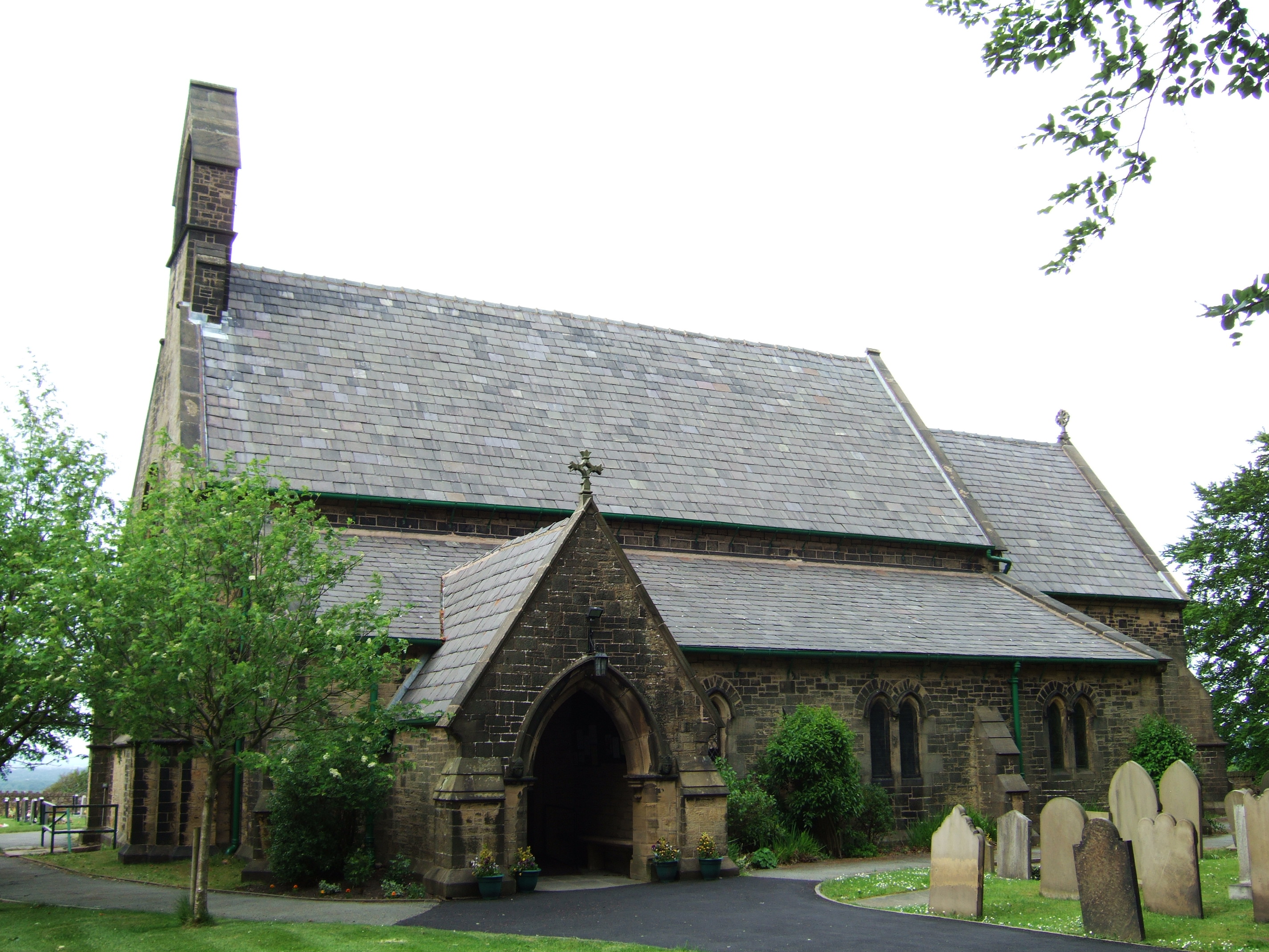 St James the Great parish church, Wrightington, Lancashire, seen from the southwest